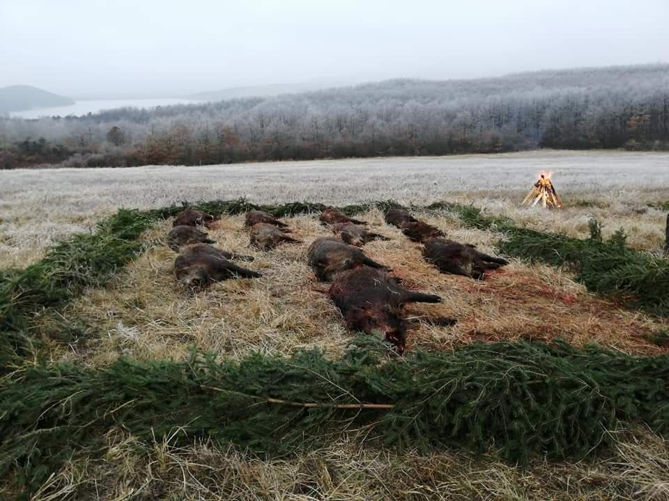 Respect for the Hunted animals